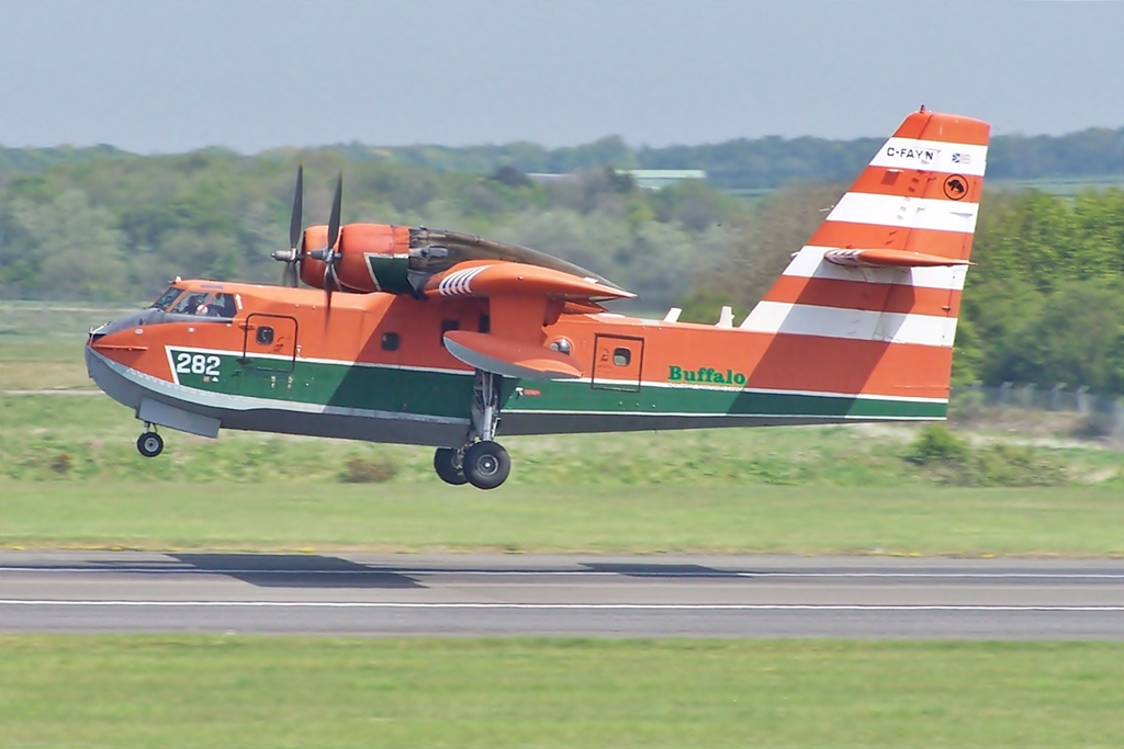 Buffalo Airways Canadair CL-215 C-FAYN (282) just getting airborne off Runway 31 at Prestwick